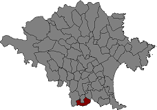 Localitzation of Saus, Camallera i Llampaies in Alt Empordà